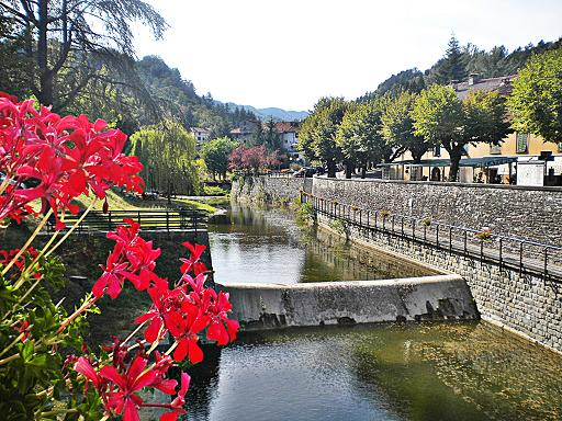 River senio